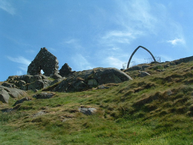 Top North Berwick Law, North Berwick, Scottish Borders, Great Britain